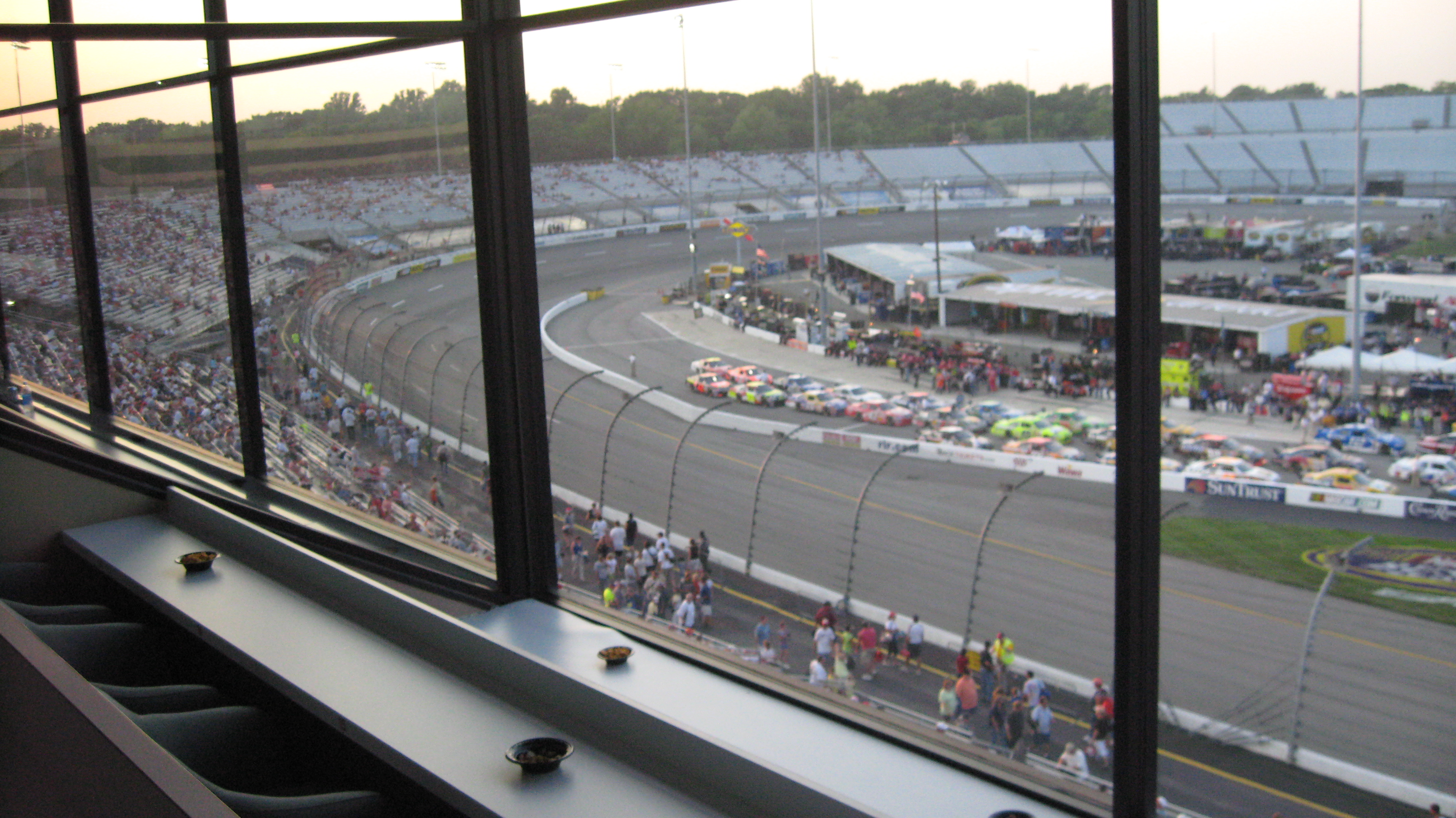 Sitting in the suites at RIR September 9th 2007 RICHMOND, Va. Kyle Busch led four times and for all but 25 laps and even made overtime look easy at Richmond International Raceway on Friday night, earning his ninth career NASCAR Busch Series victory and second of the season. Picture by Sherry Lambert